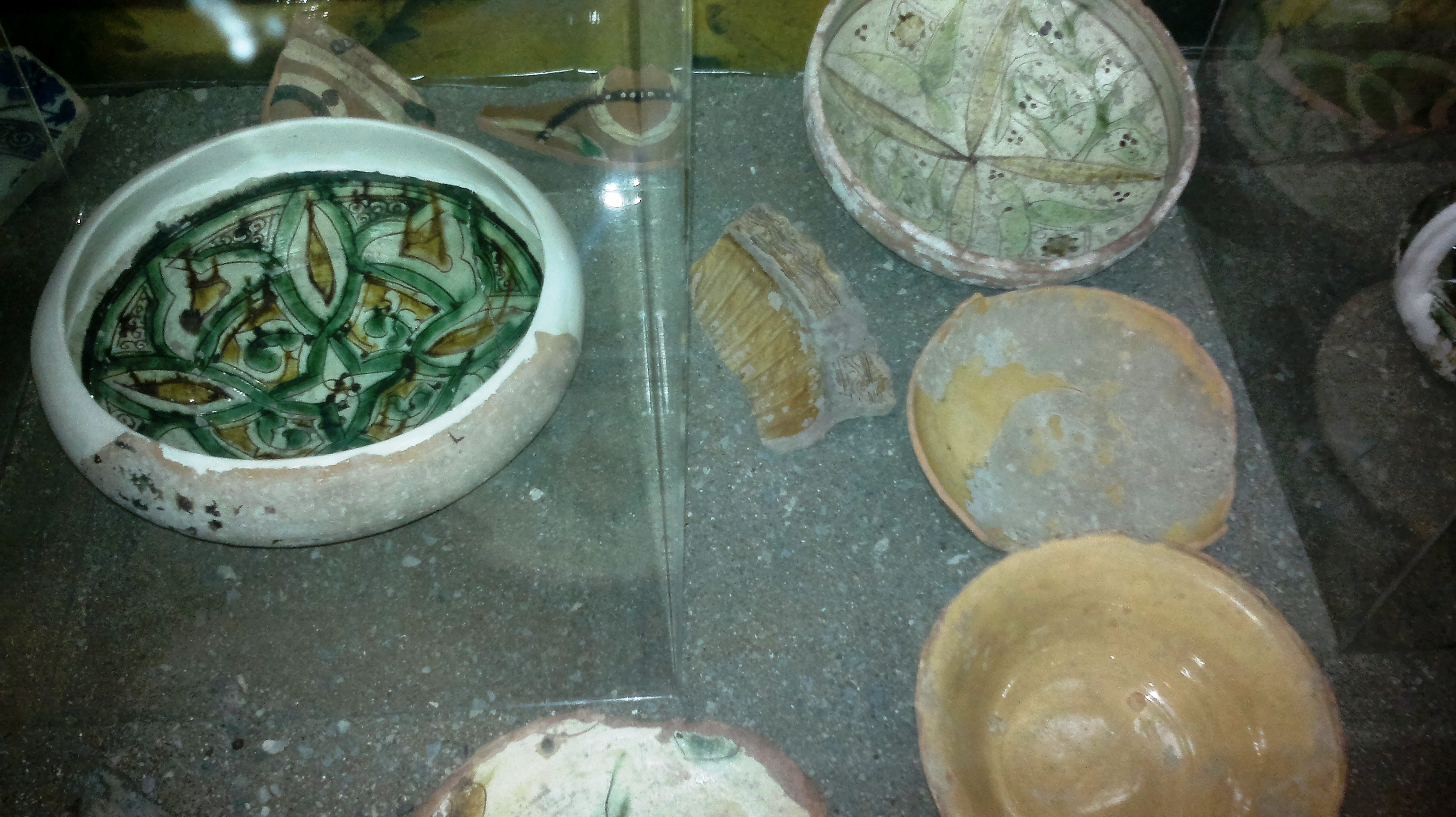 Findings from Bandovan. Middle ages.